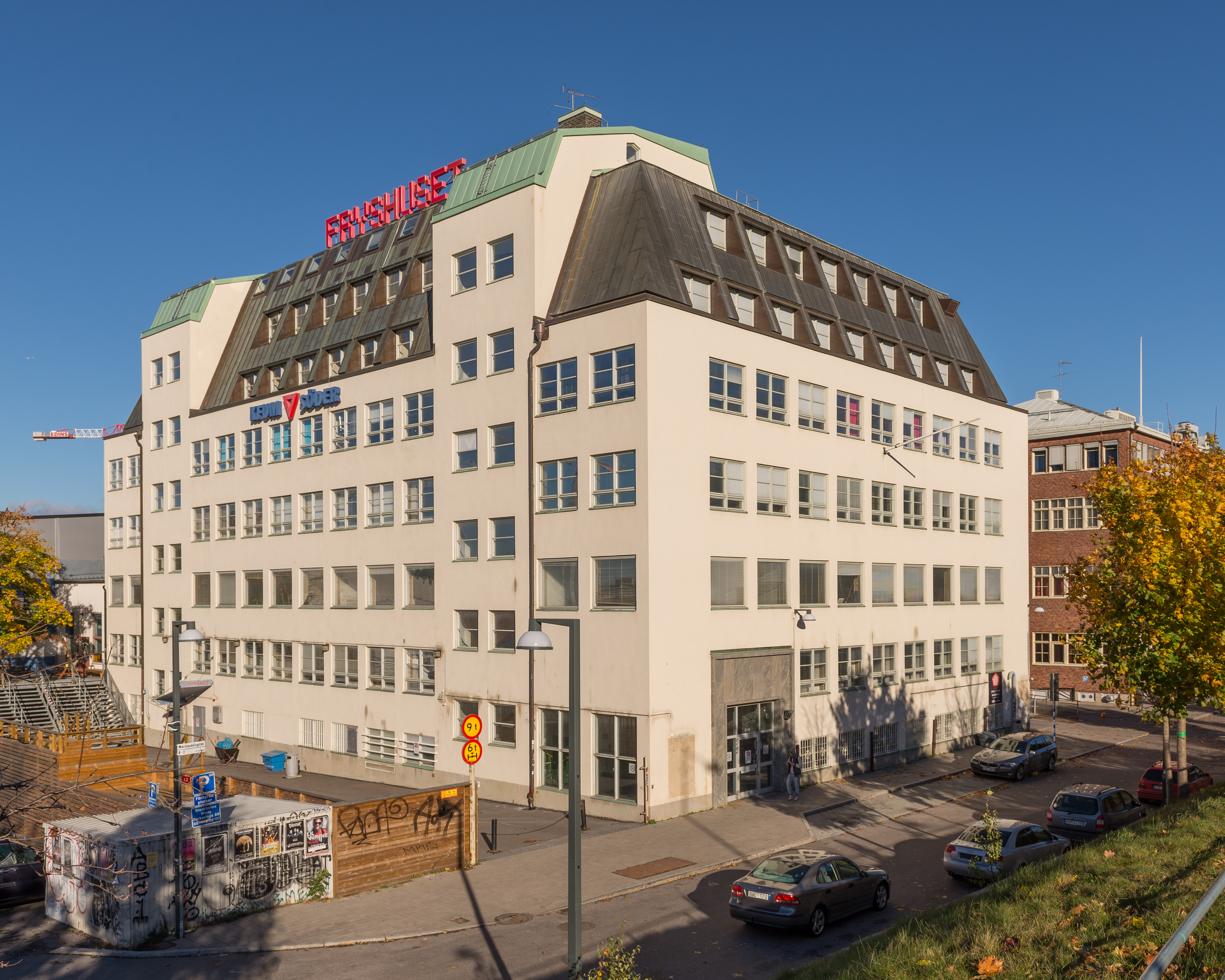 Fryshuset is an activity center for young people in Stockholm, Sweden offering social projects and educational programs.